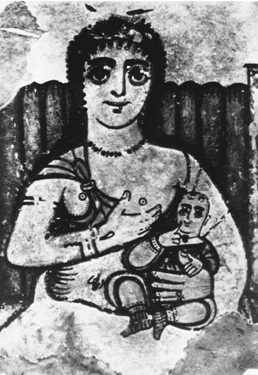 Isis holding Harpocrates, in a fresco from a house in Karanis